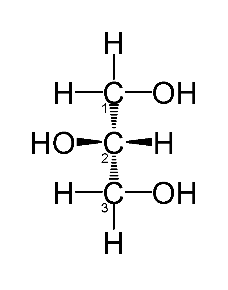 sn-structure (stereospecific numbering) for Glycerol